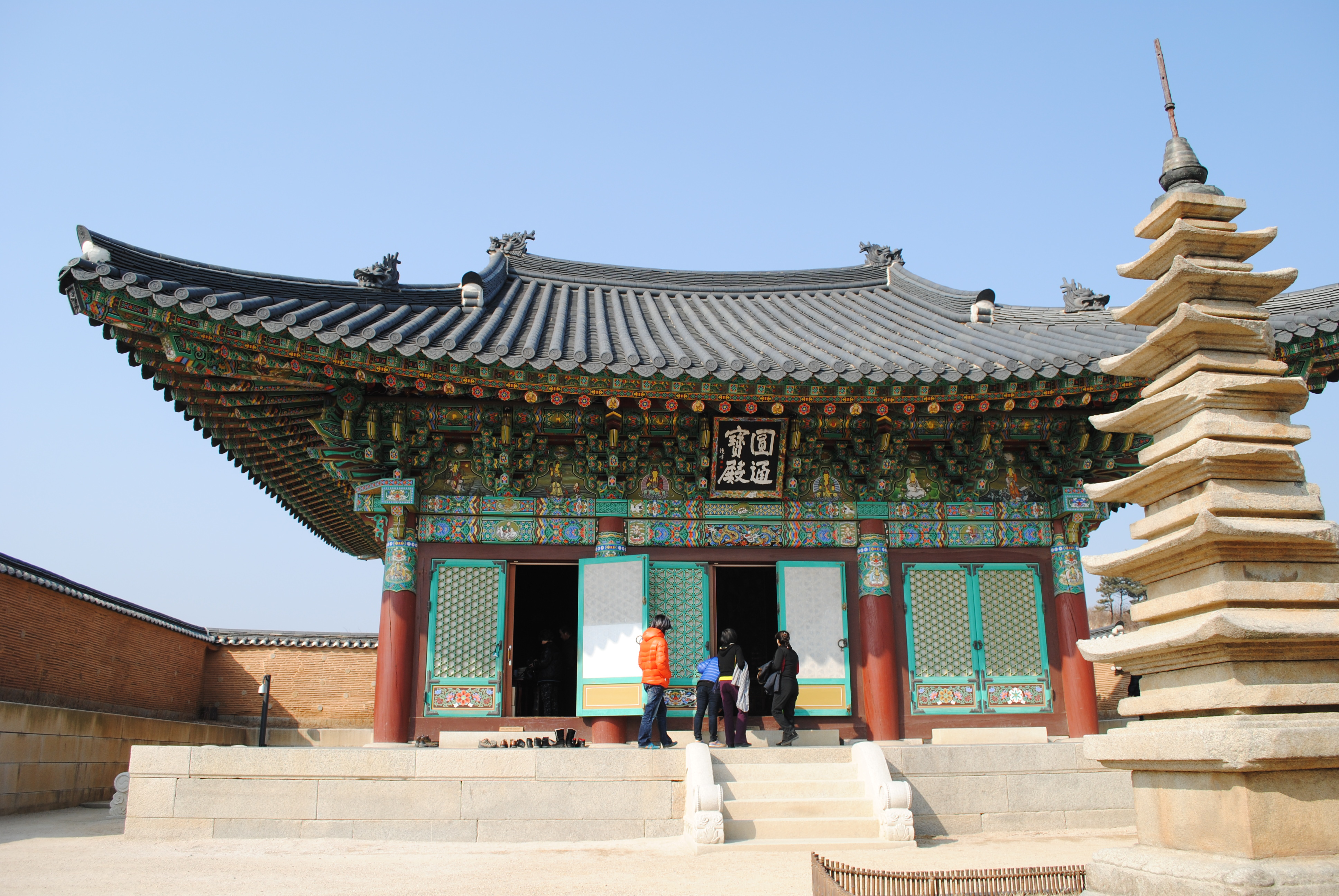 Wontongbojeon, the architecture for worship to Avalokiteśvara, at Naksansa, Gangwon-do, Republic of Korea.